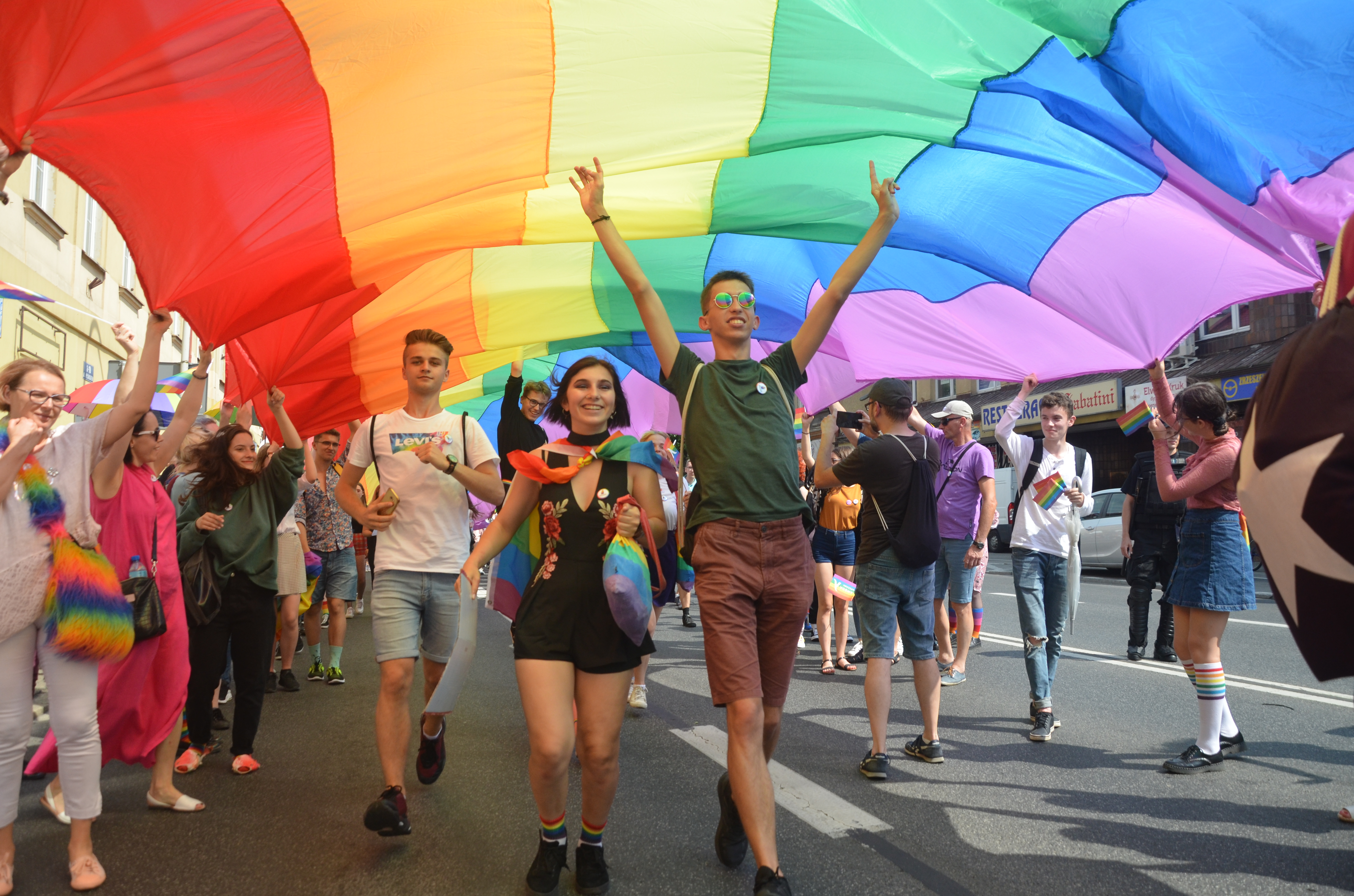 Rzeszów Pride